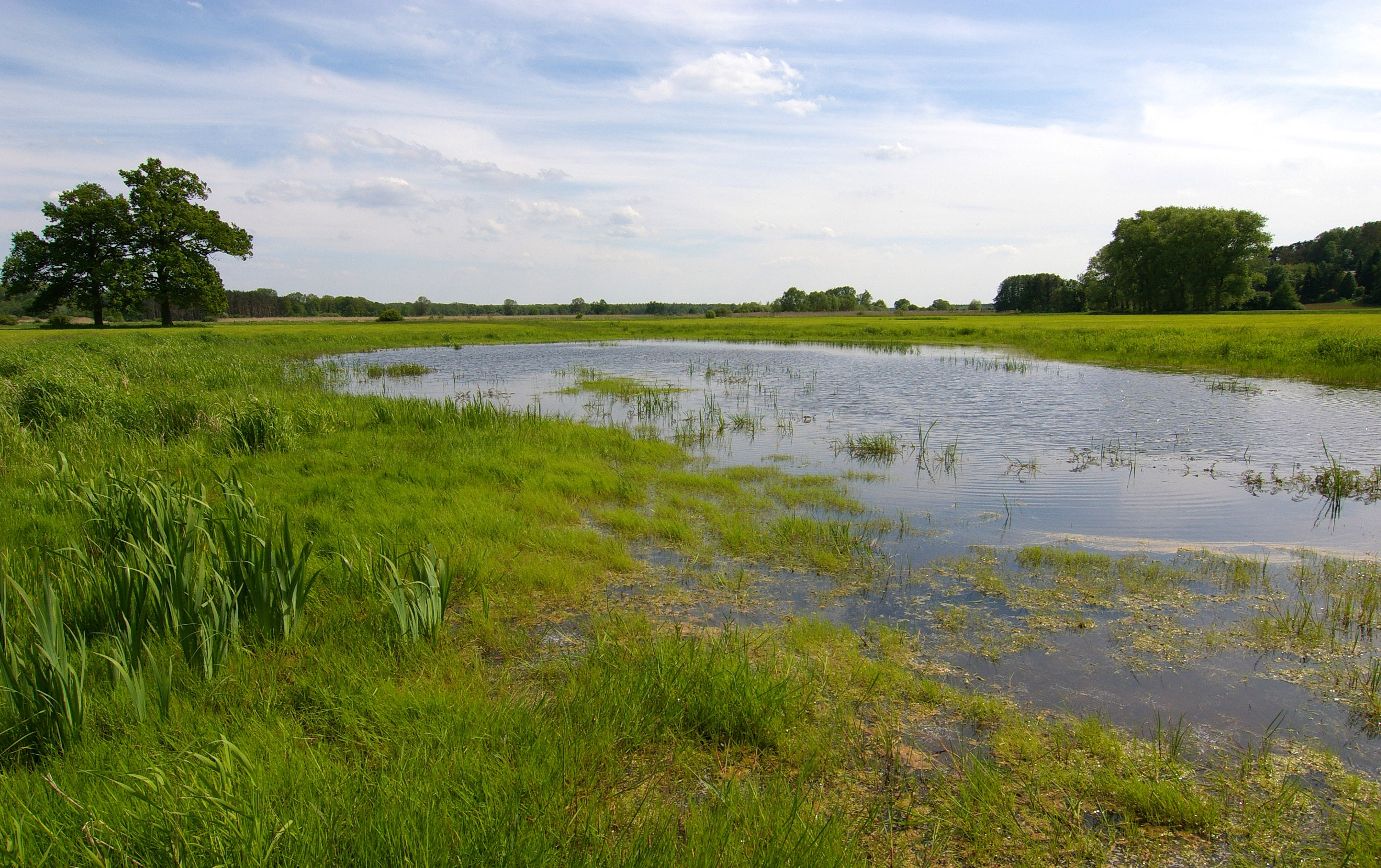 Pool in wet meadowland in the floodplain of the Elbe River in northern Germany. Habitat of several amphibian species like Hyla arborea, Bombina bombina, Rana arvalis, Pelophylax esculentus.